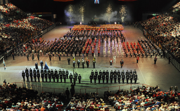 The Birmingham International Tattoo Grand Finale 2010